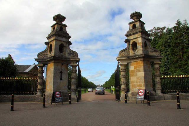 Entrance to Blenheim Palace Park